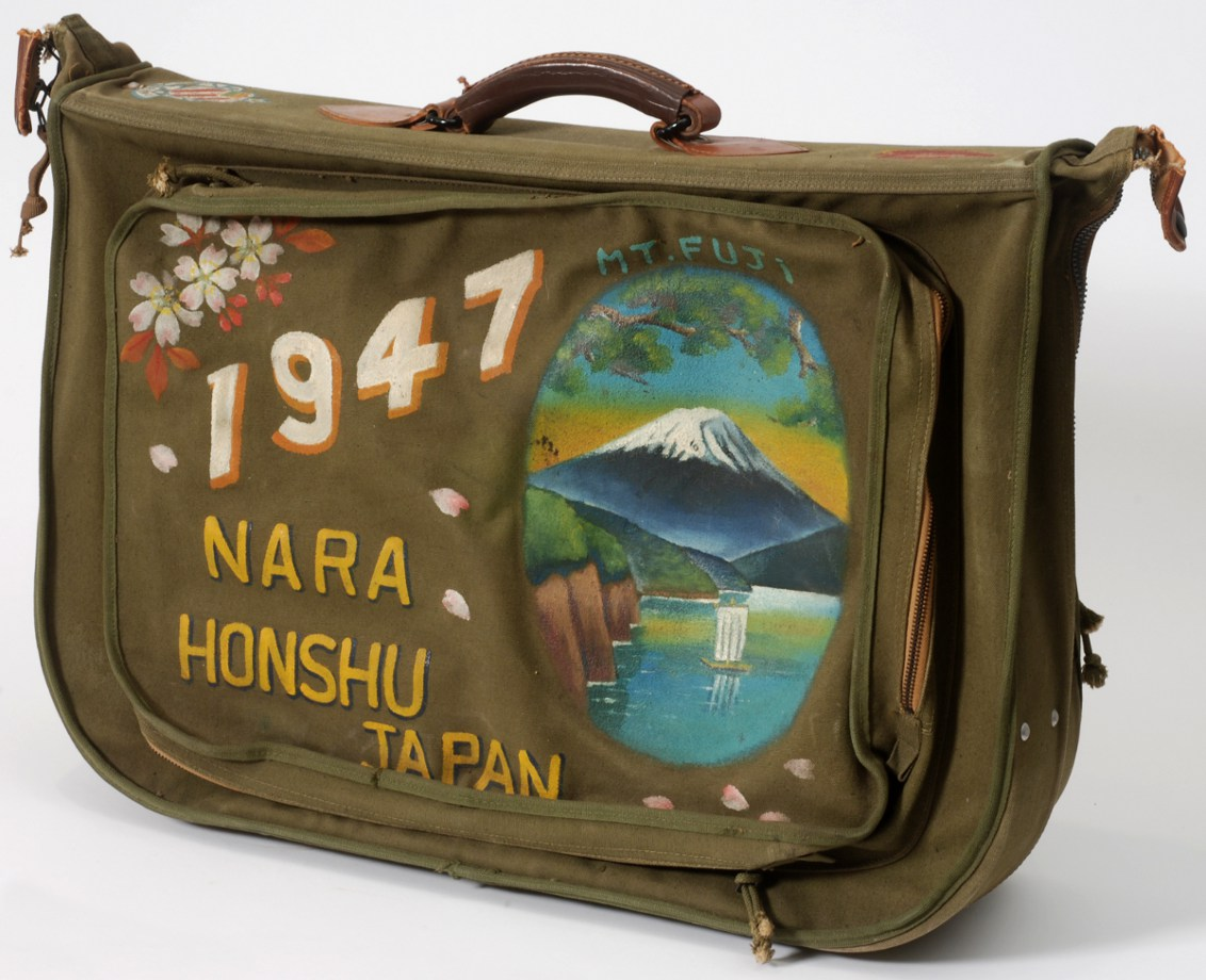 U.S. Air Force officer's issue type B-4 flight bag of olive canvas with 2 zippered exterior pockets, one handpainted with errant cherry blossom fragments, "1947/NARA/HONSHU/JAPAN" and "MT. FUJI" with illustration of Mt. Fuji with a body of water and sailboat in the foreground; the other pocket painted with "AL JOHNSON/WAYZATA,/MINNESOTA" with lightning bolt insignia of U.S. Army 25th Division field artillery regiment and 8th Field Artillery crest with caption "AUDACIEUX ET TENACE"; both insignia are repeat on either side of leather handle at top. Interior has dark olive cloth pocket and two olive cloth flaps, one attached to each side. Owned by Al Johnson, circa 1947. Featured on the Minnesota Historical Society’s Collections Up Close blog